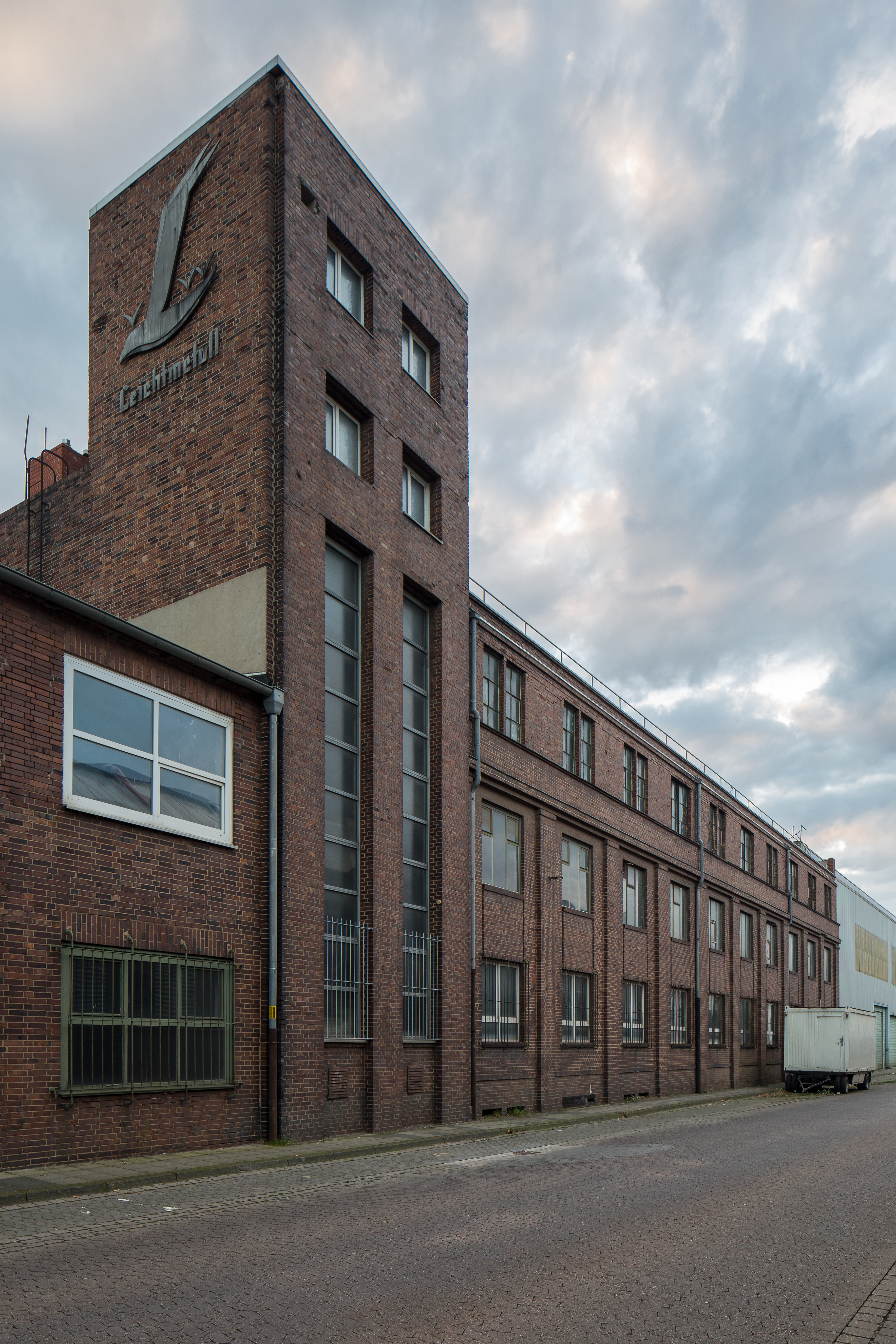 Factory building of former "Vereinigte Leichtmetallwerke" company (today: Norsk Hydro), located at Schlorumpfsweg in Ricklingen district of Hanover, Germany.